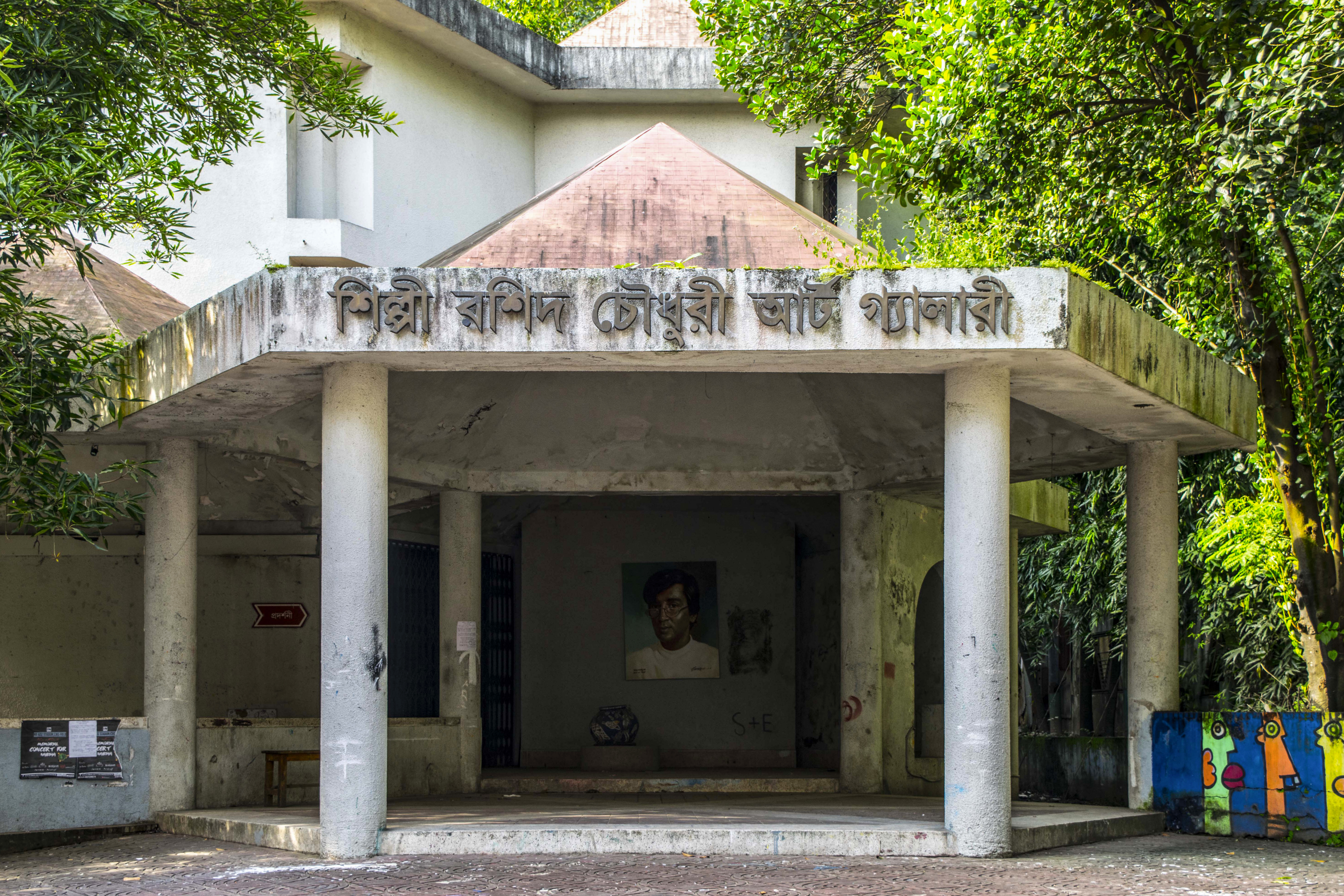 Artist Rashid Choudhury Art Gallery, Institute of Fine Arts, University of Chittagong, Badshah Miah Chowdhury Road, Chittagong.